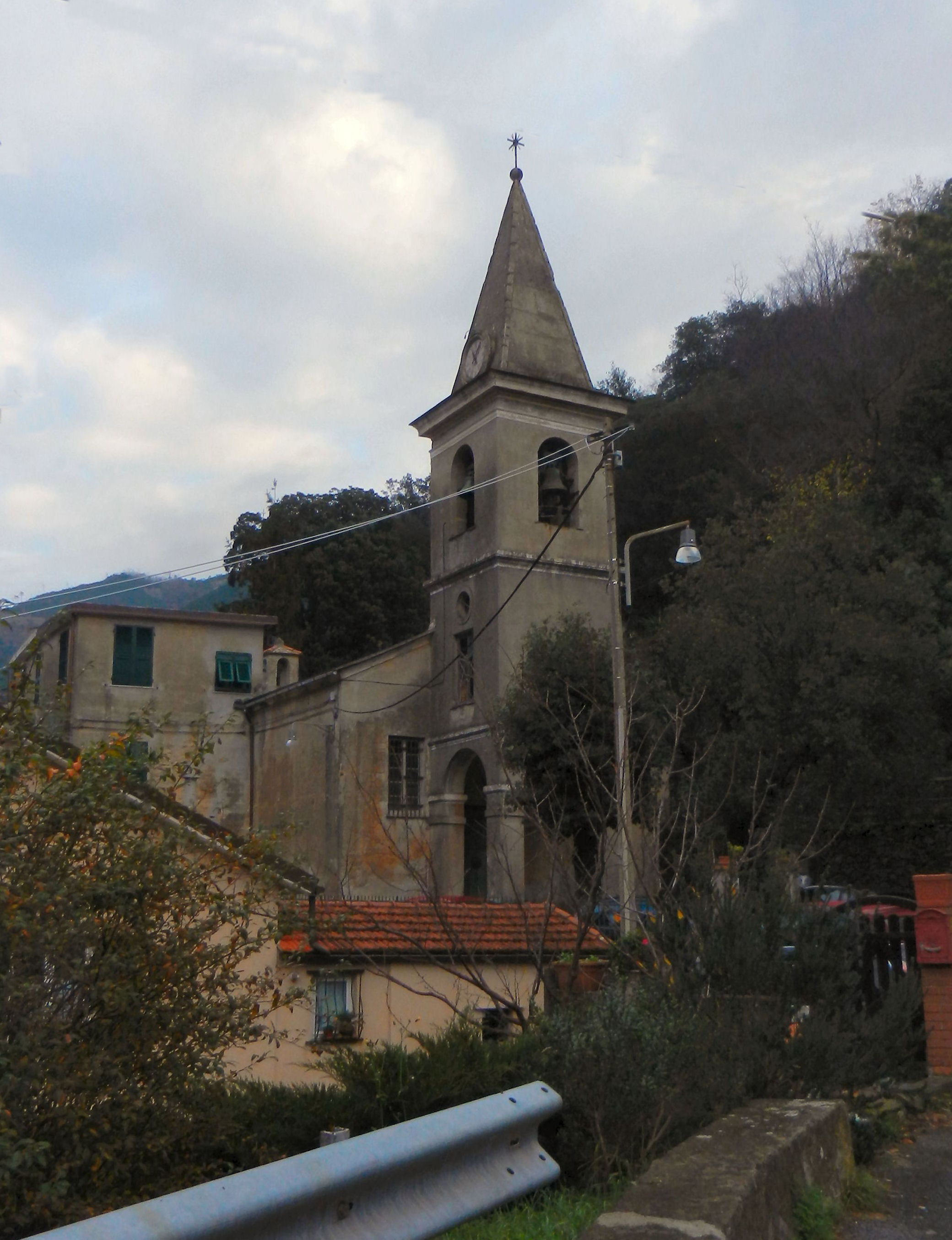 Genoa, Italy, quarter of Pegli, the "Chiesino" ("the little church"), Val Varenna